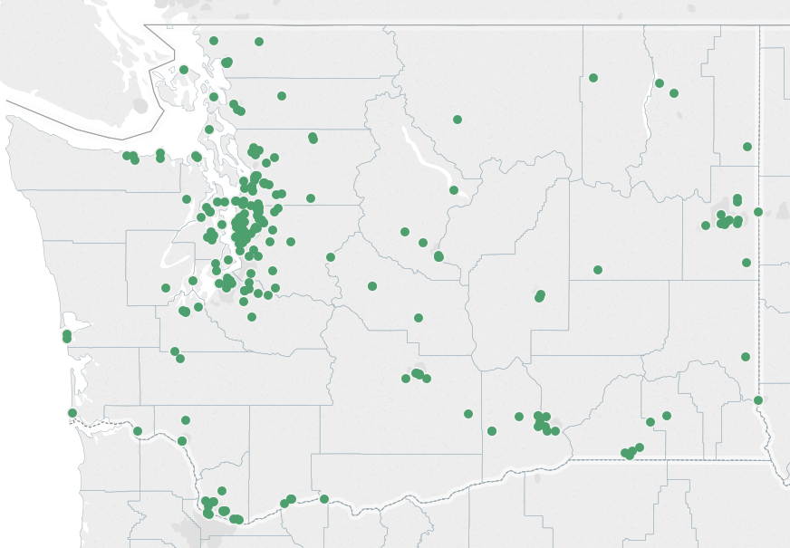 Map of breweries licensed in Washington. Made with Tableau